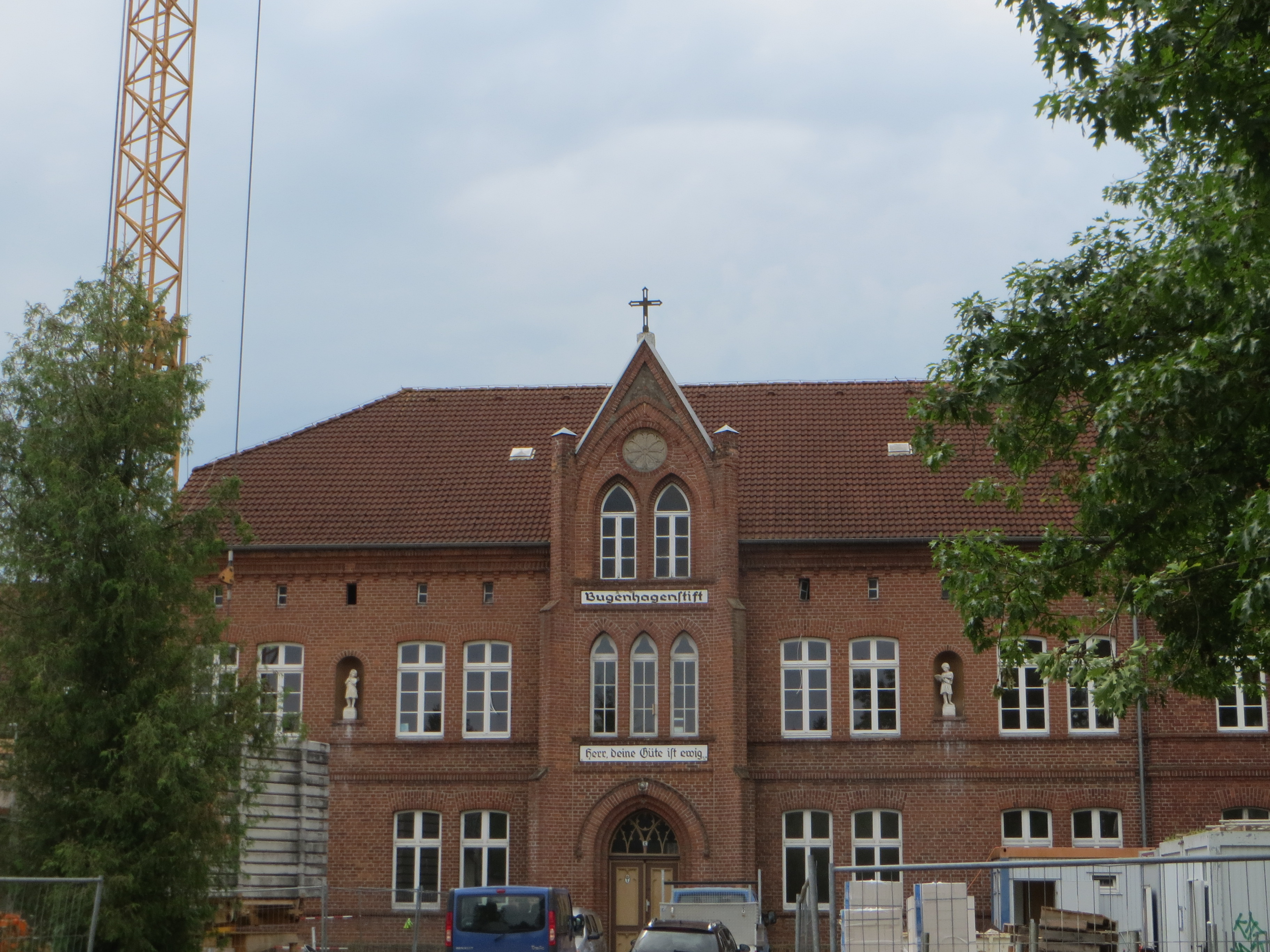 Bugenhagenstift Ducherow